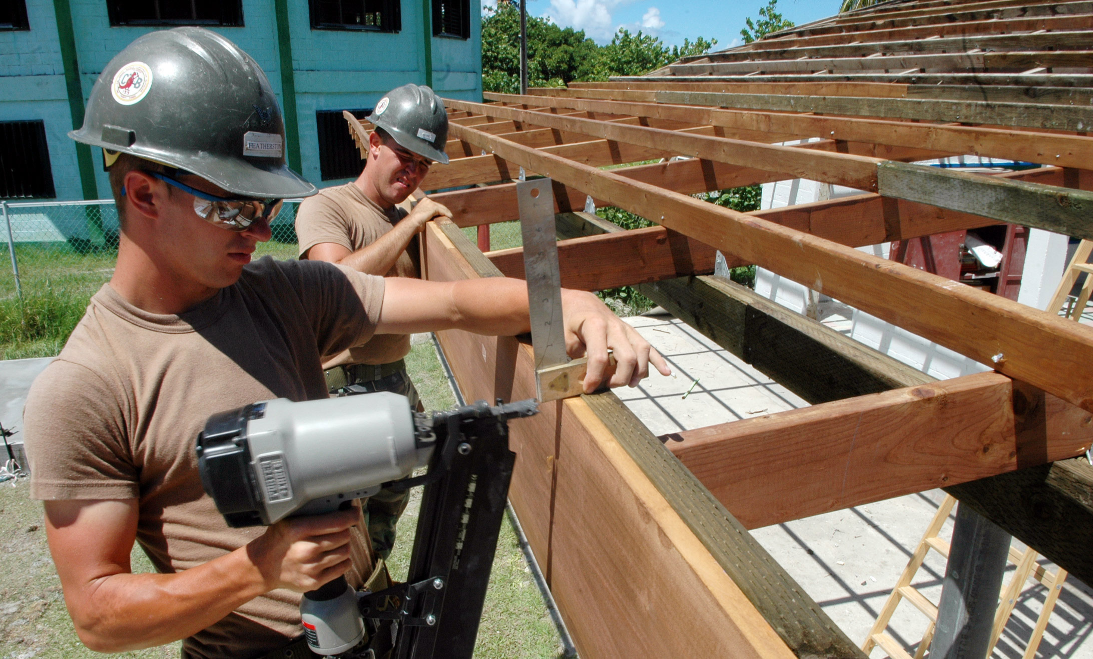 CHUUK, Federated States of Micronesia (Aug. 23, 2008) Steel Worker 3rd Class Michael Featherston and Constructionman Steven Cline, both assigned to Navy Mobile Construction Battalion (NMCB) 133 embarked about the Military Sealift Command hospital ship USNS Mercy (T-AH 19), help build a roof for the reconstruction of Mwan Elementary School during a Pacific Partnership engineering civic action program. The Pacific Partnership team of construction men and women has assisted six different countries, renovating schools, hospitals and medical clinics. Pacific Partnership assists the government the Federated States of Micronesia in providing local communities with various medical, dental and engineering civic action programs providing focused humanitarian assistance. (U.S. Navy photo by Mass Communication Specialist 2nd Class James Seward/Released)